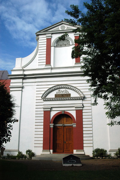 Wolvendaal Church, Colombo